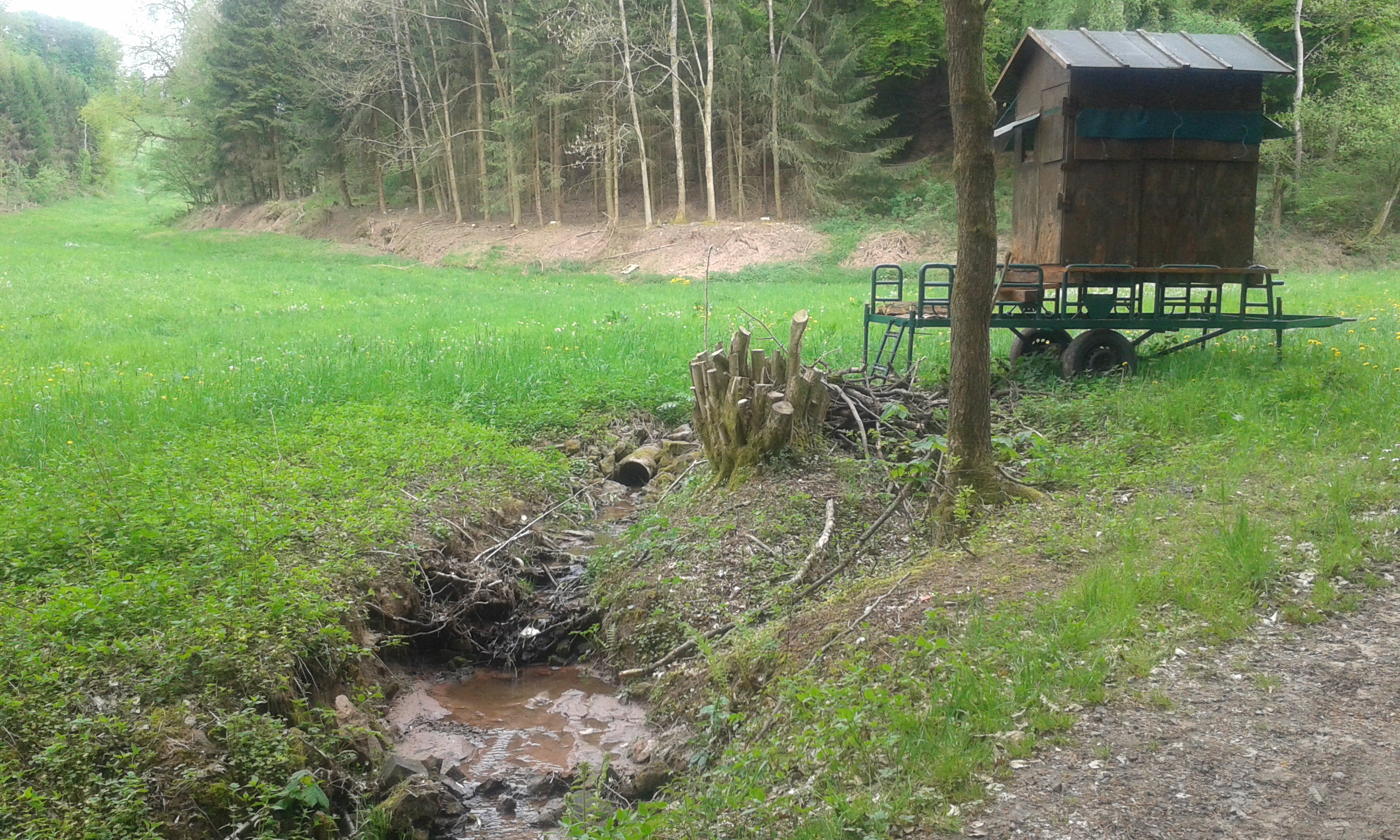 The source of the Lambsbach in Lambsborn